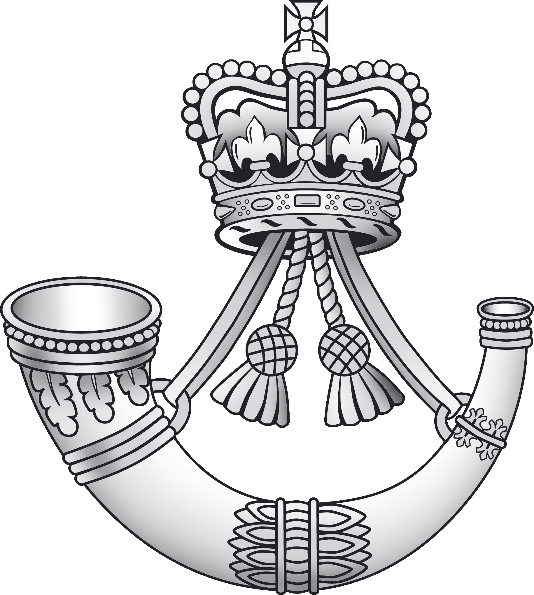 Cap badge for 2nd Battalion The Rifles of the British Army